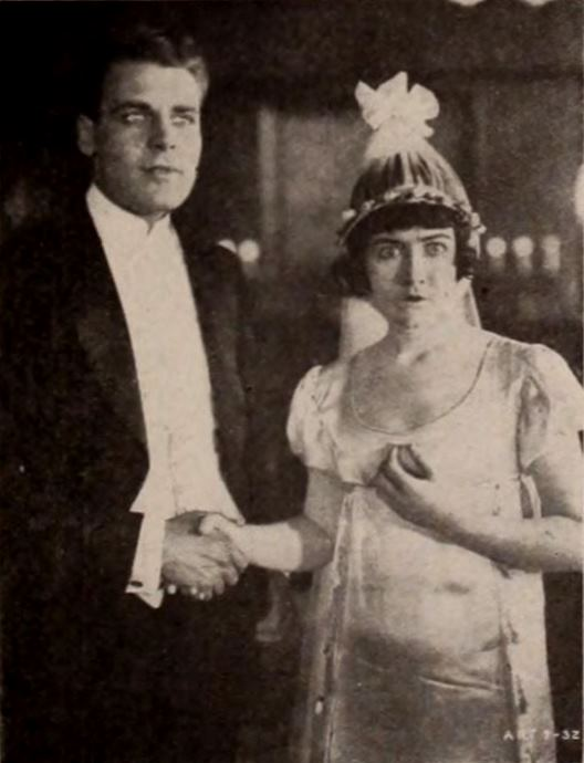 Still from the American comedy film Nobody Home (1919) with Ralph Graves and Dorothy Gish, on page 55 of the August 6, 1919 Exhibitors Herald.